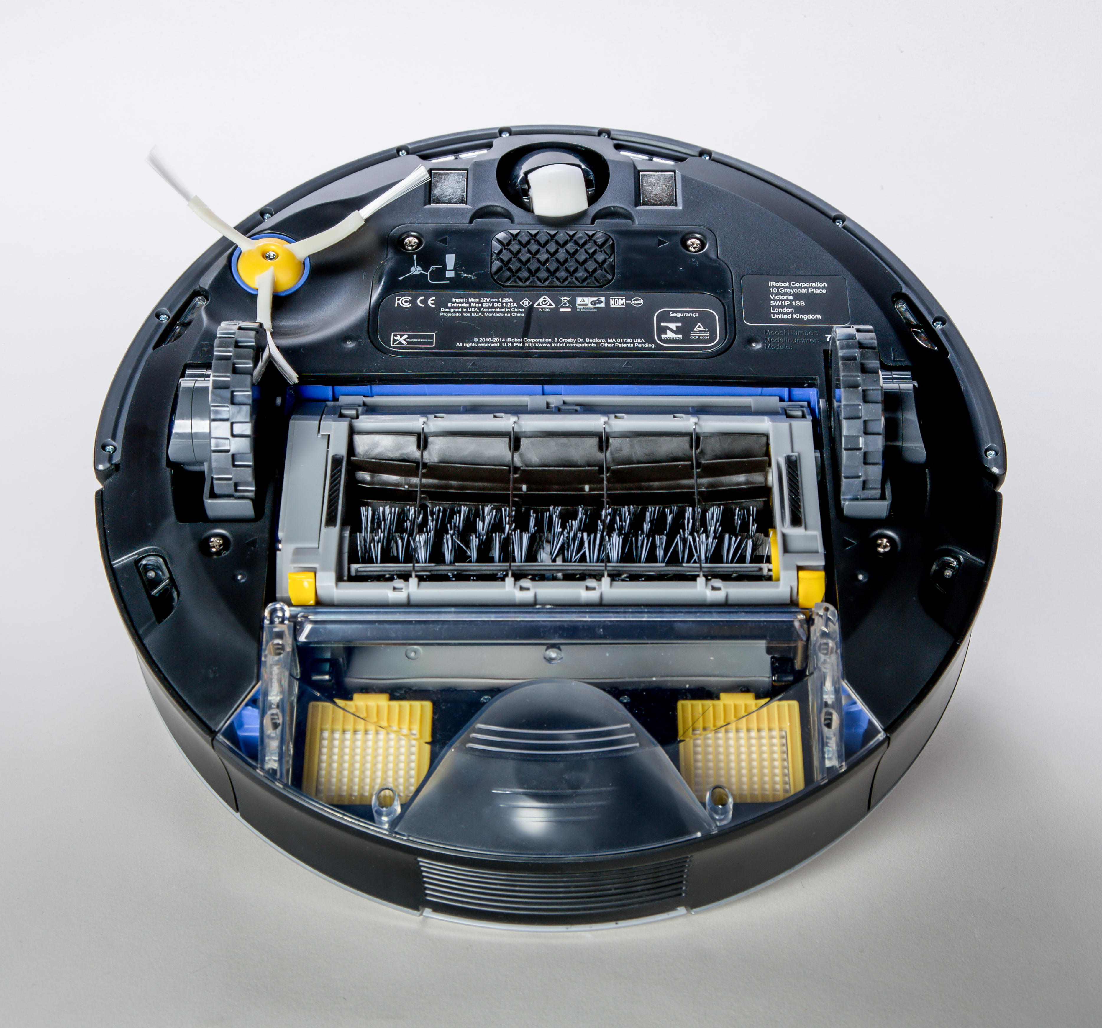 The model year 2014 iRobot Roomba 782 Hoover. Focus stacking of 5 pictures.